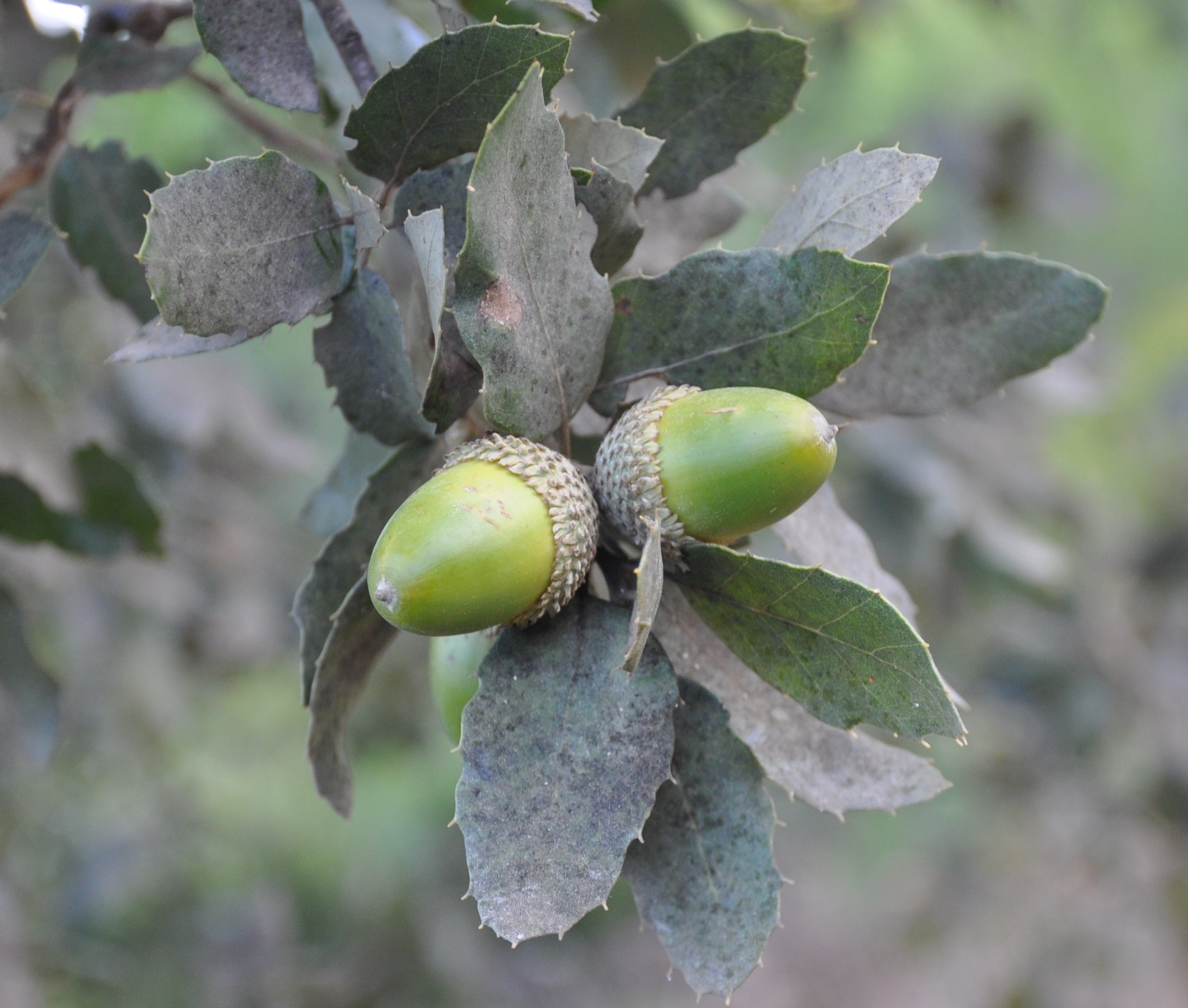 Acorns of cork oak at Ceuta, Spain.